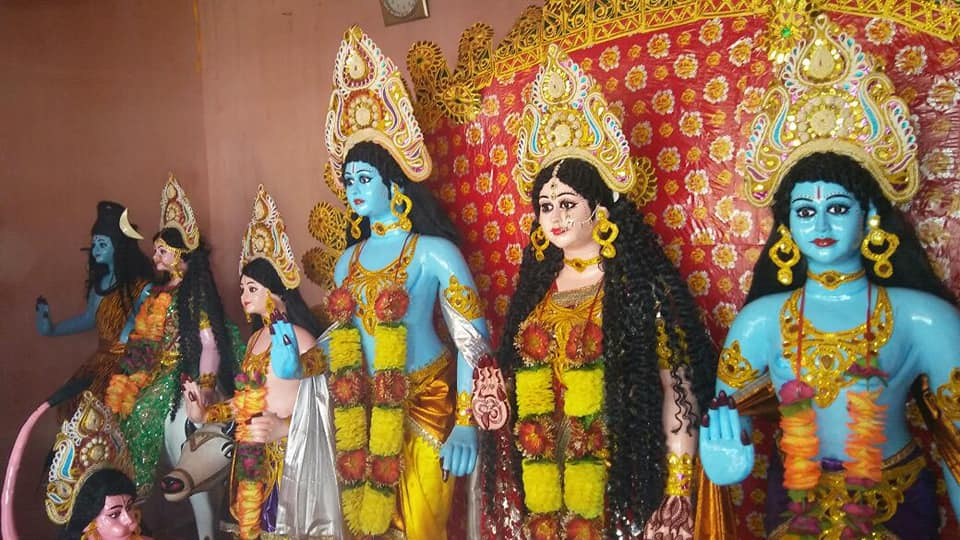 Ram Navmi status of Khajuraha